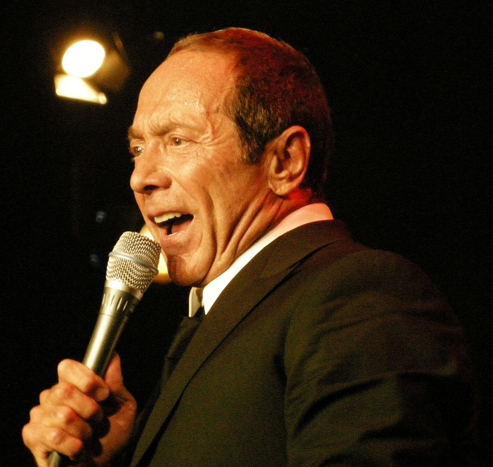 Paul Anka at the 2007 North Sea Jazz Festival